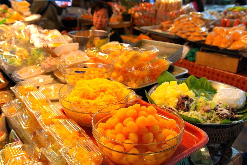 Thai sweet and desserts sold at Thanin Market in Chiang Mai